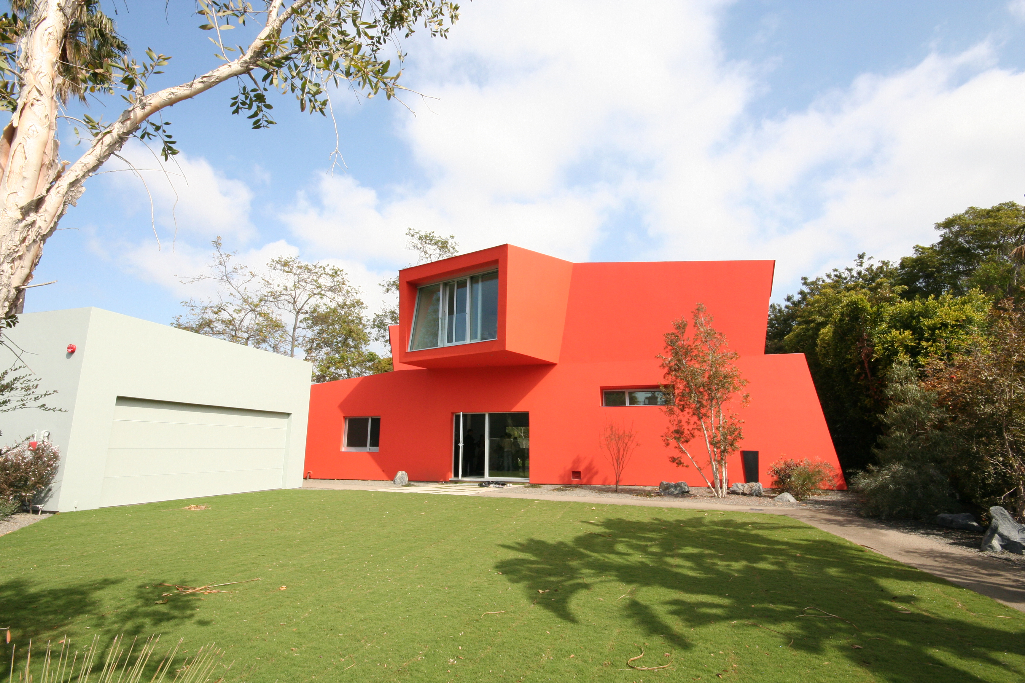 Winnett House Exterior Kevin Daly Architects